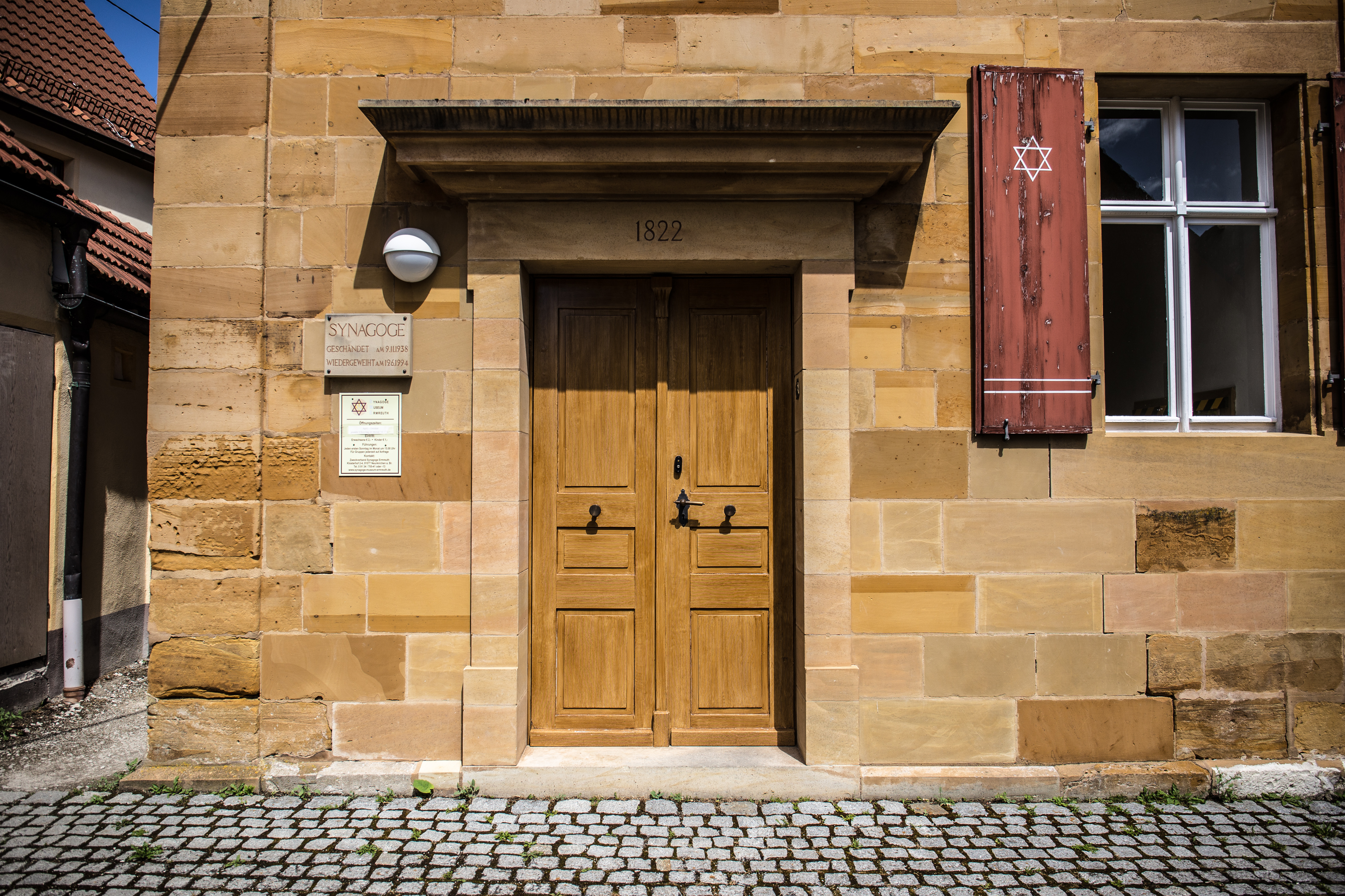 This is a photograph of an architectural monument.